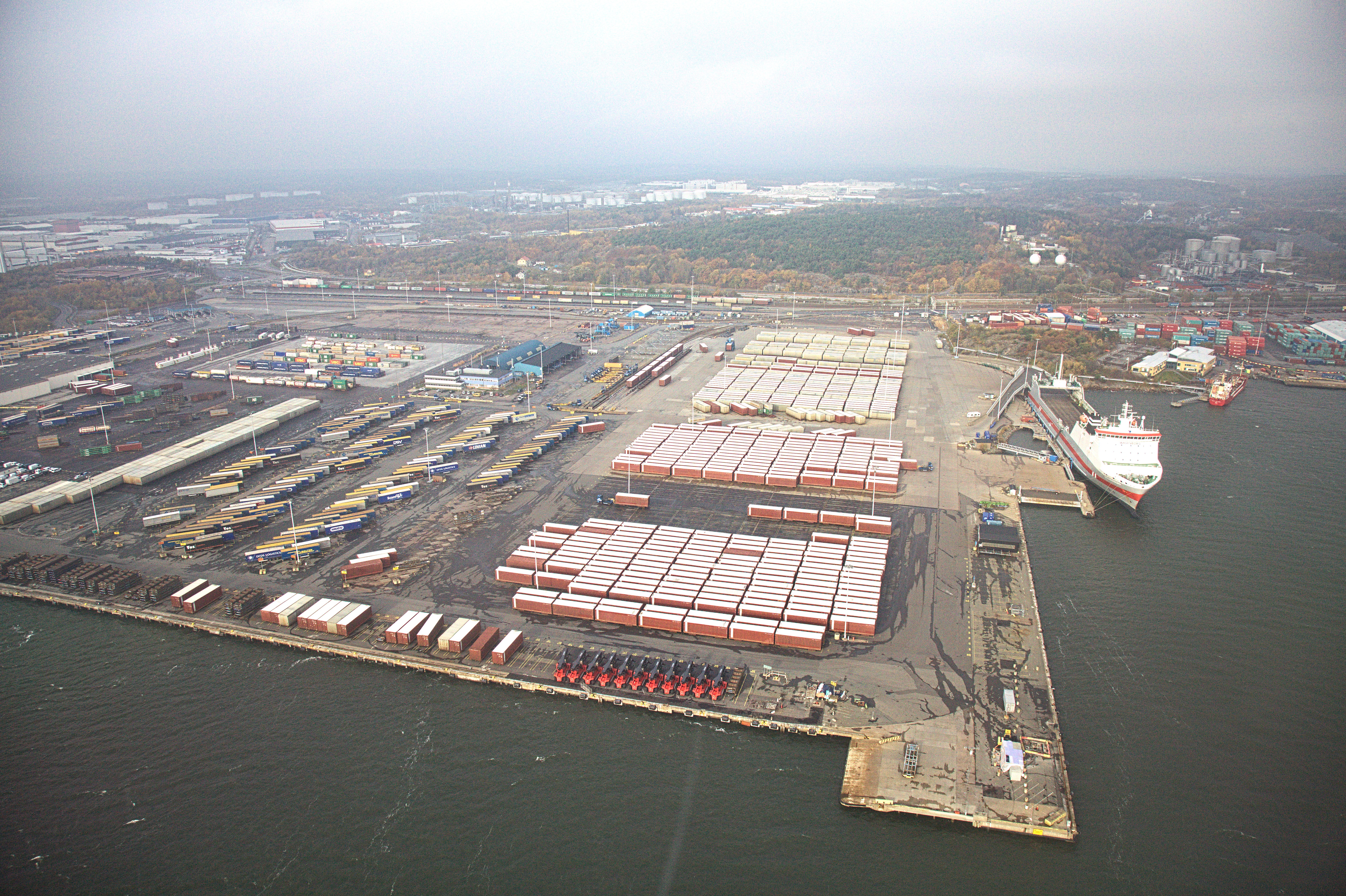 Photo taken on a helicopter over Gothenburg